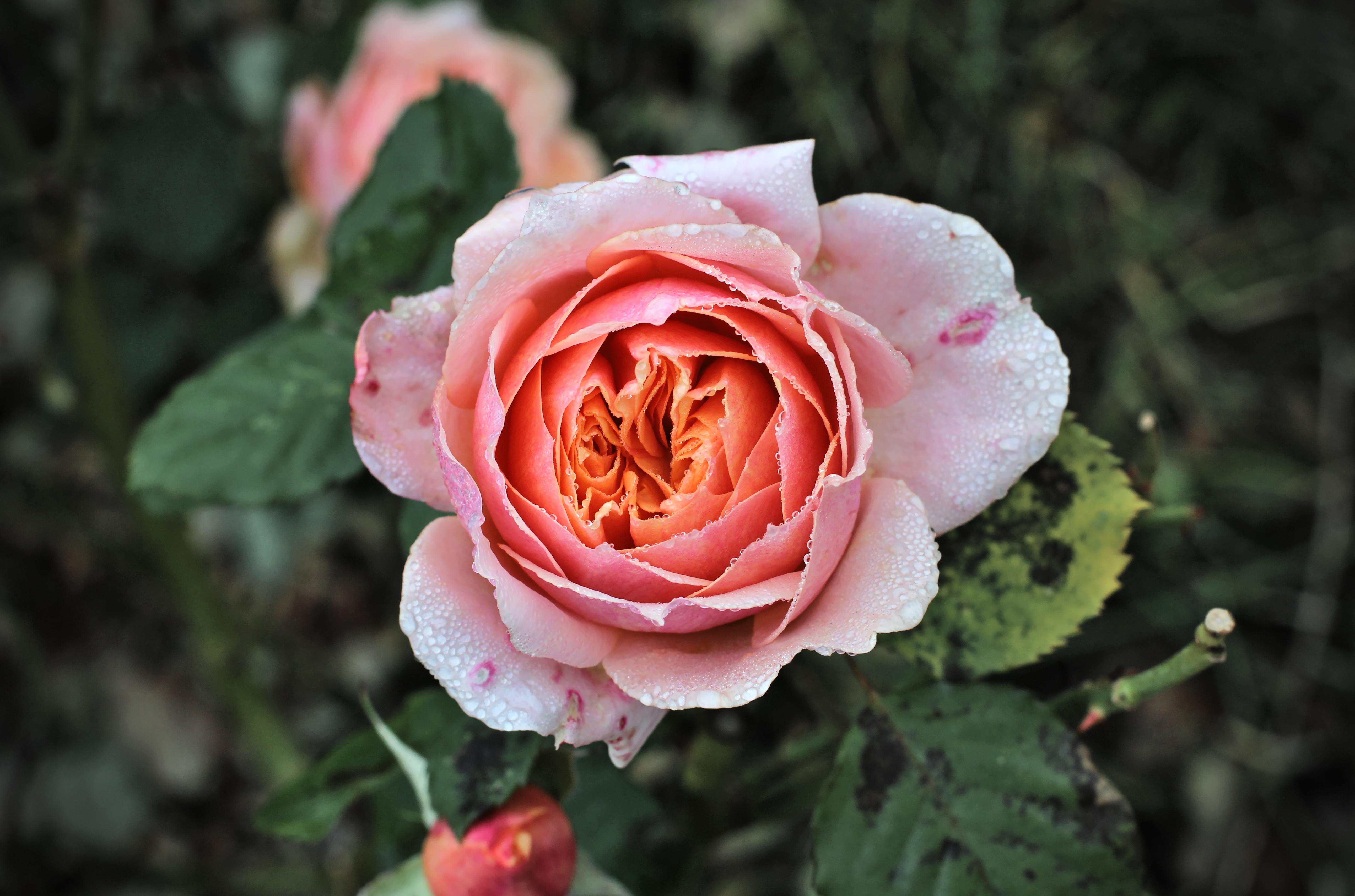 Edible rose in the Laquenexy orchard garden, Moselle, France. - possibly Rosa 'Abraham Darby'.